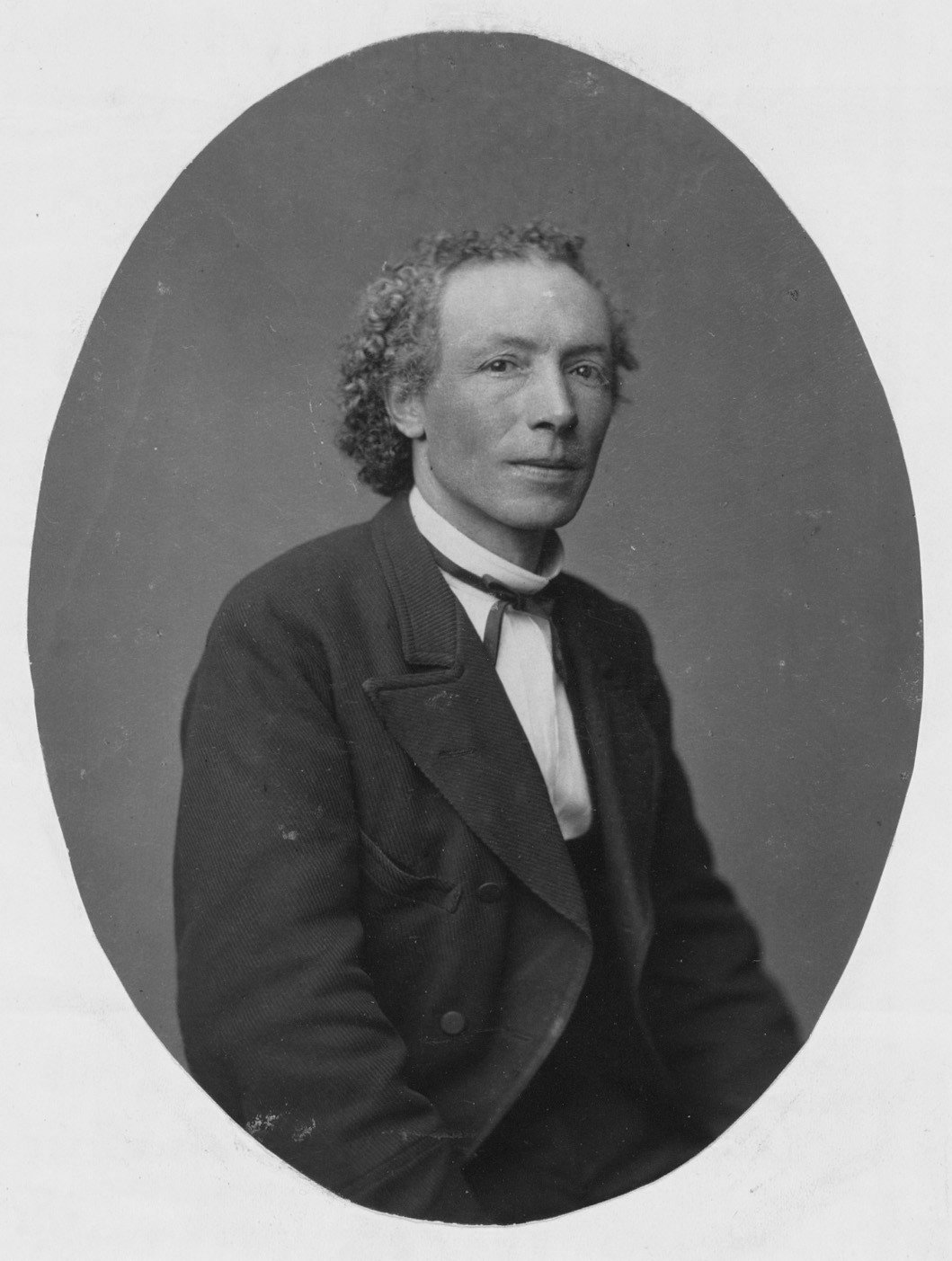 Jacobus Gerhardus van Niftrik (1833 - 1910)